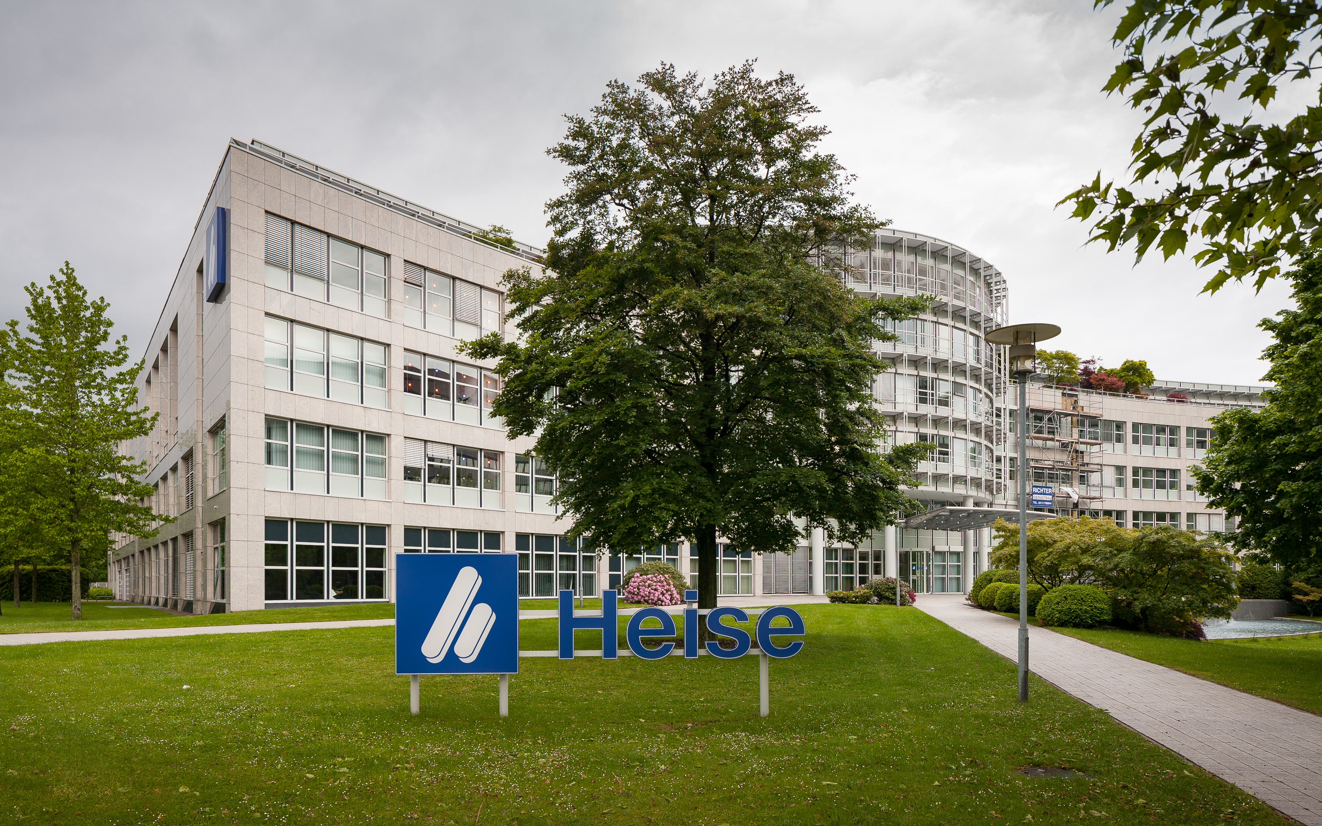 Office building of Heise publisher company located at Karl-Wiechert-Allee in Hanover, Germany.